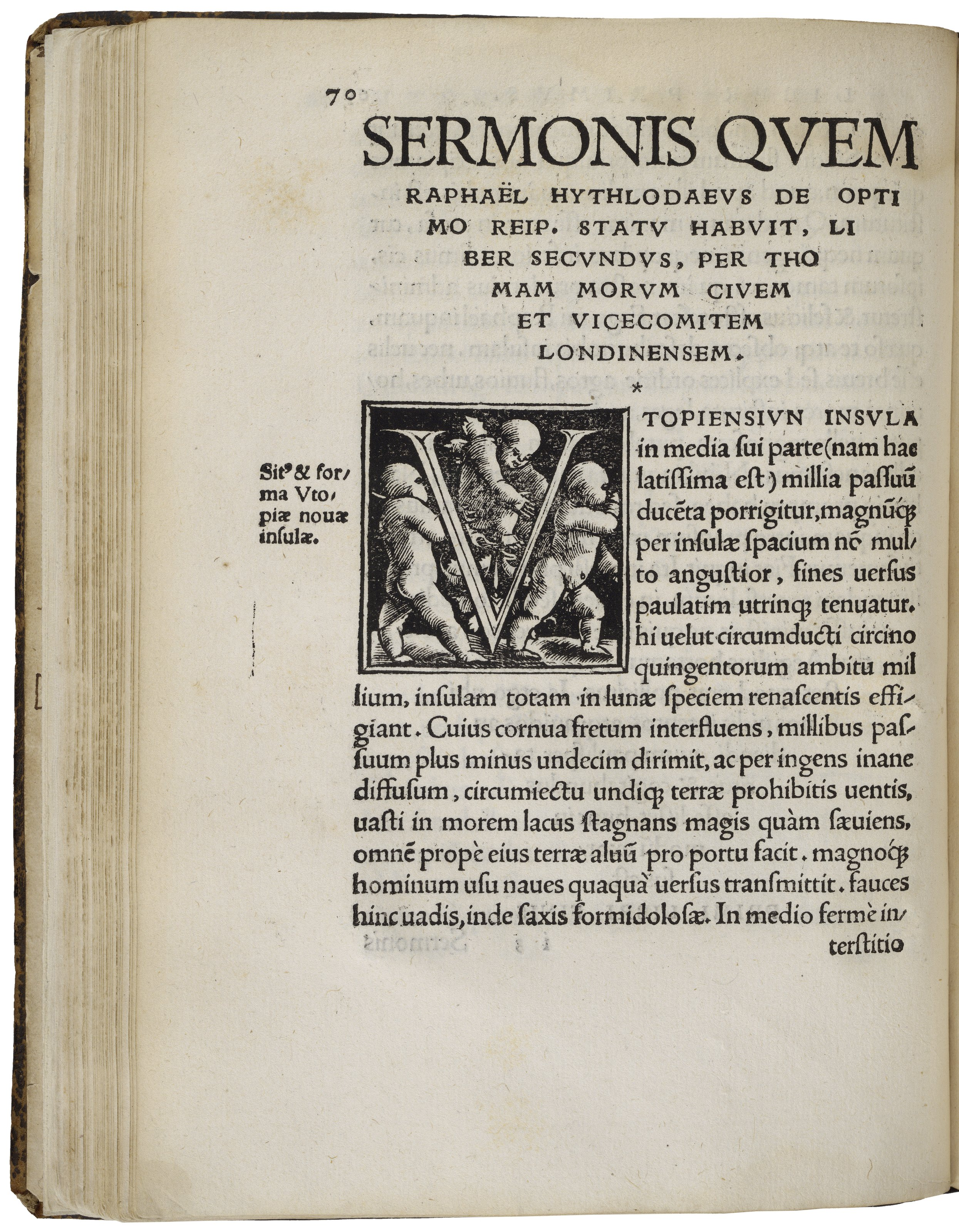 This is the page 70 of Thomas More's Utopia, the first page of Book 2 (november 1518)